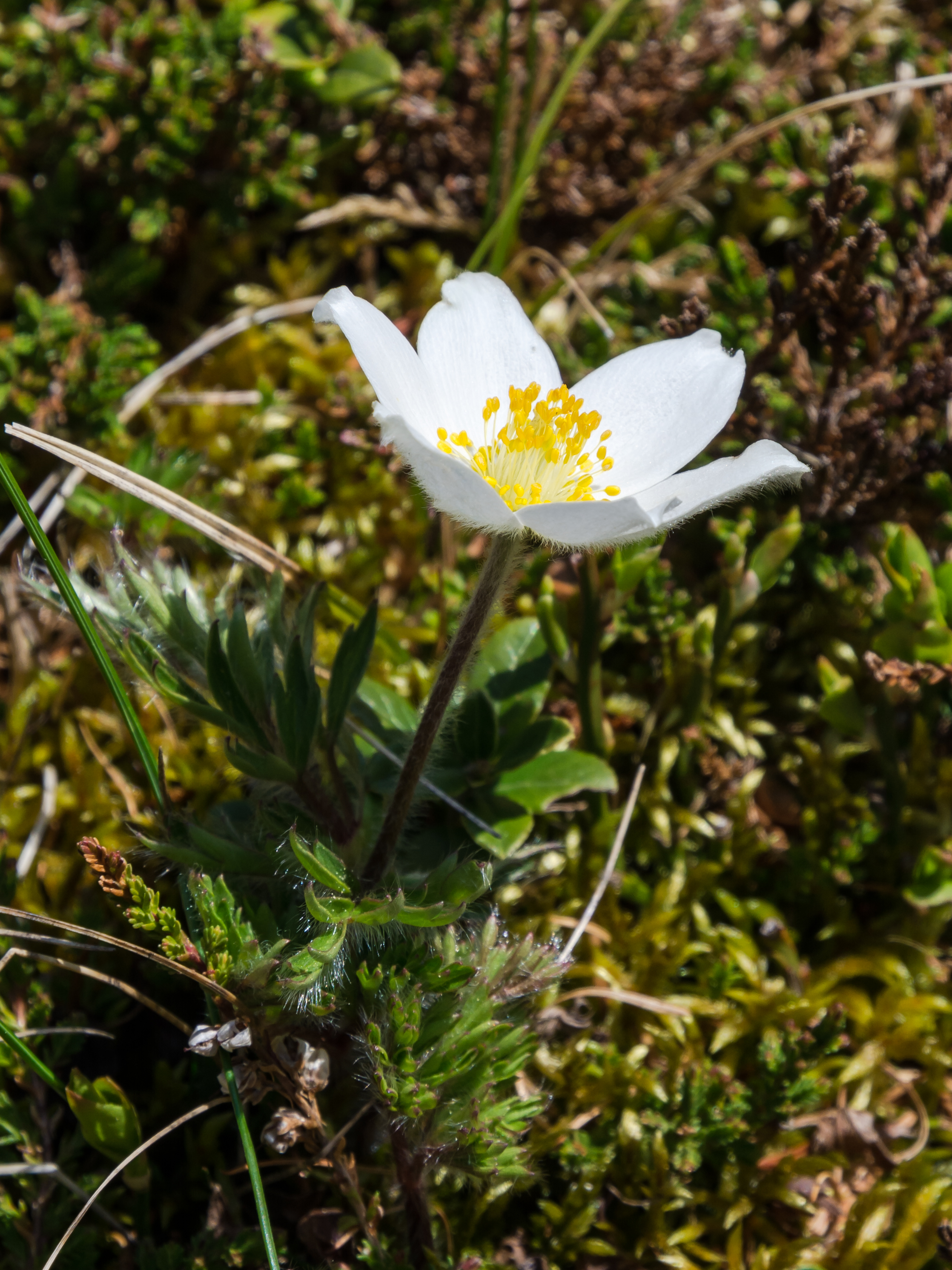 Alpine pasqueflower (Pulsatilla alpina subsp. austriaca) at the Hochalm in the Seckau Tauern, Styria, Austria